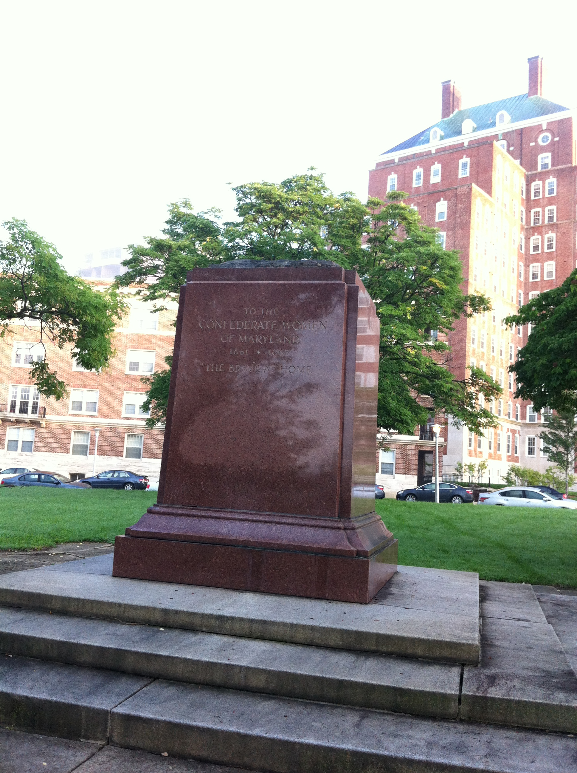 Baltimore Confederate Women's Memorial the morning after the removal of the bronze statue.